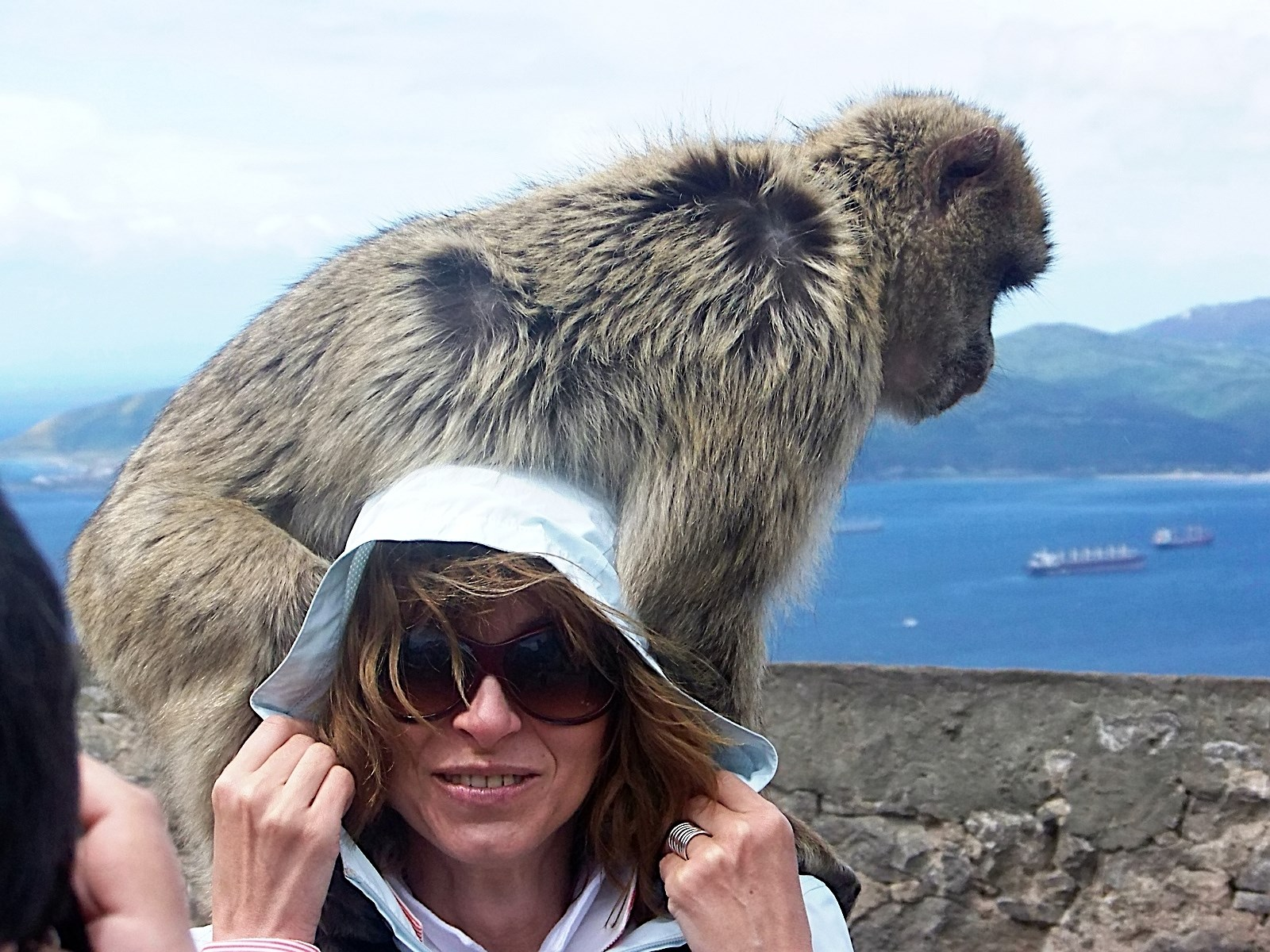 Barbary Macaque on a tourist (a practice which is discouraged by authorities and conservation NGO's) in the Upper Rock Nature Reserve, Gibraltar.